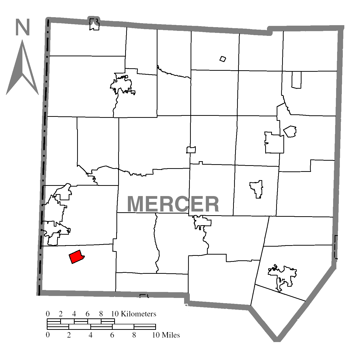 Map of Mercer County higlighting West Middlesex.